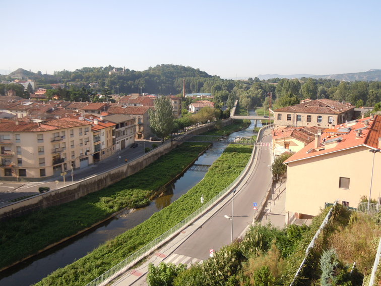 View of Torelló town, in Catalonia